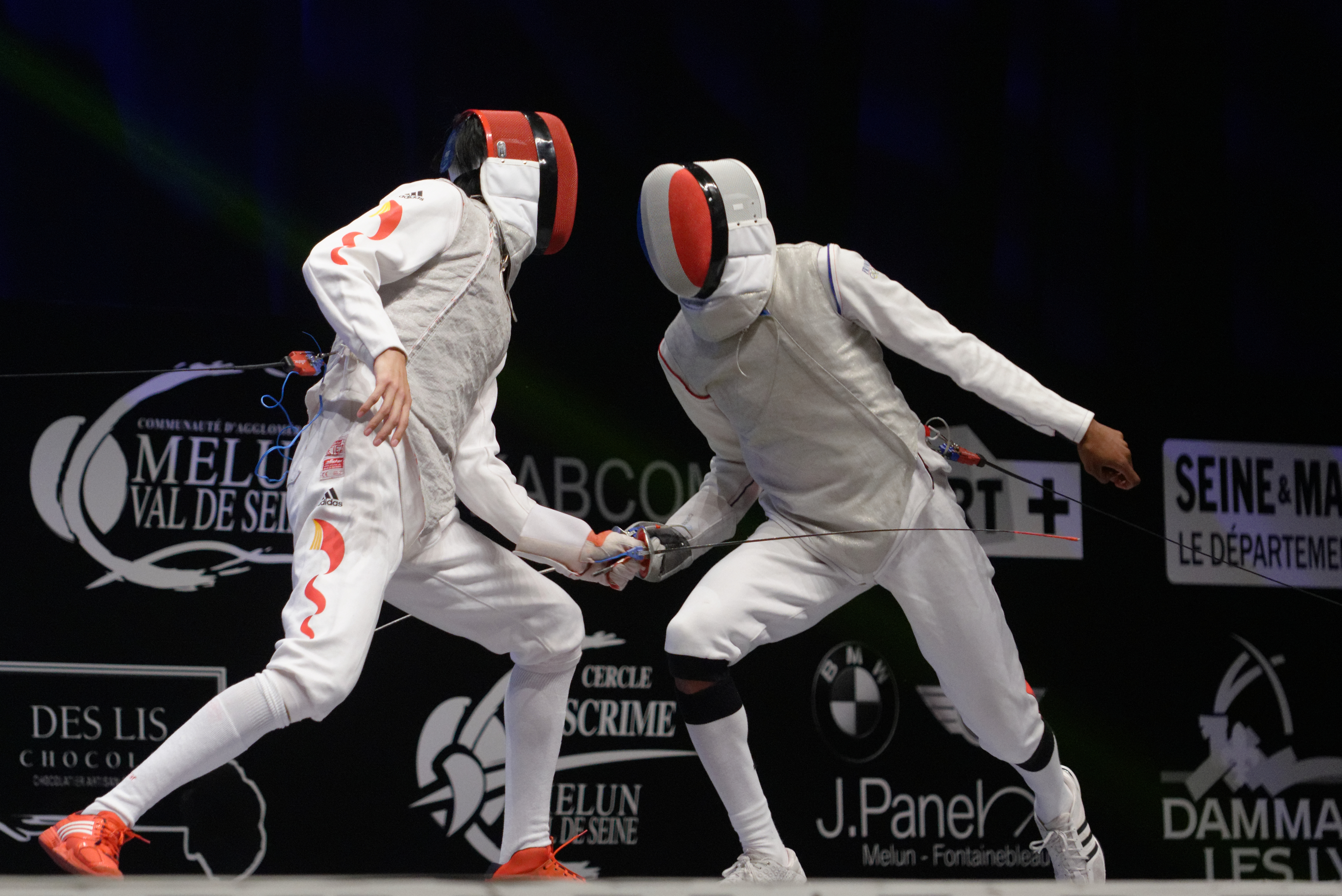 Lei Sheng (L) v Enzo Lefort (R) in a pool match of the Master de fleuret 2013 in Dammarie-les-lys, France.